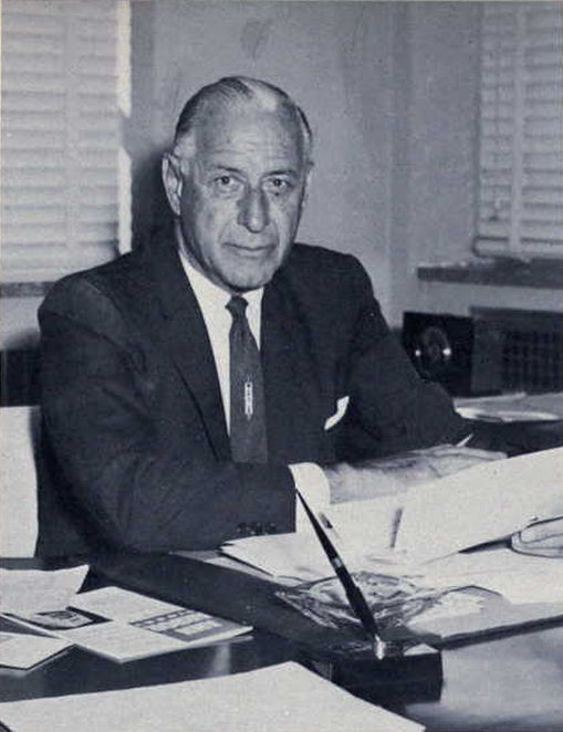 Photograph of Fritz Crisler